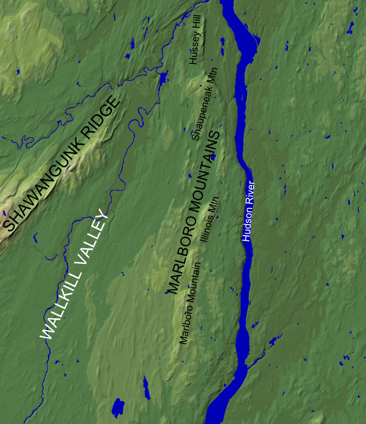 Section of a shaded relief map of the U.S. state of New York (from the United States Geological Survey) showing the extent of the Marlboro Mountains. Geographic features have been labeled.